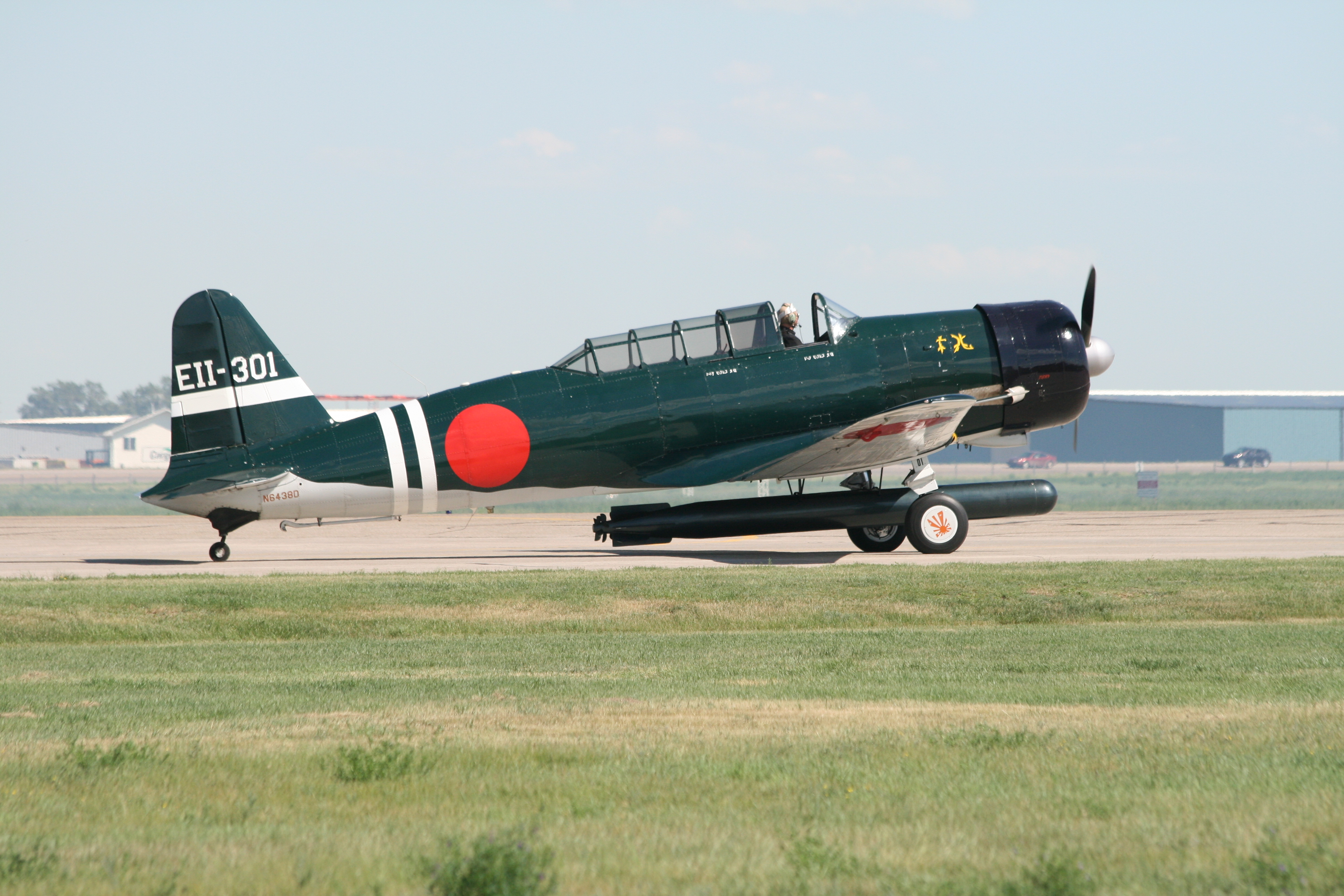 One of the planes from Tora Tora Tora, the recreation of the attack on Pearl Harbor